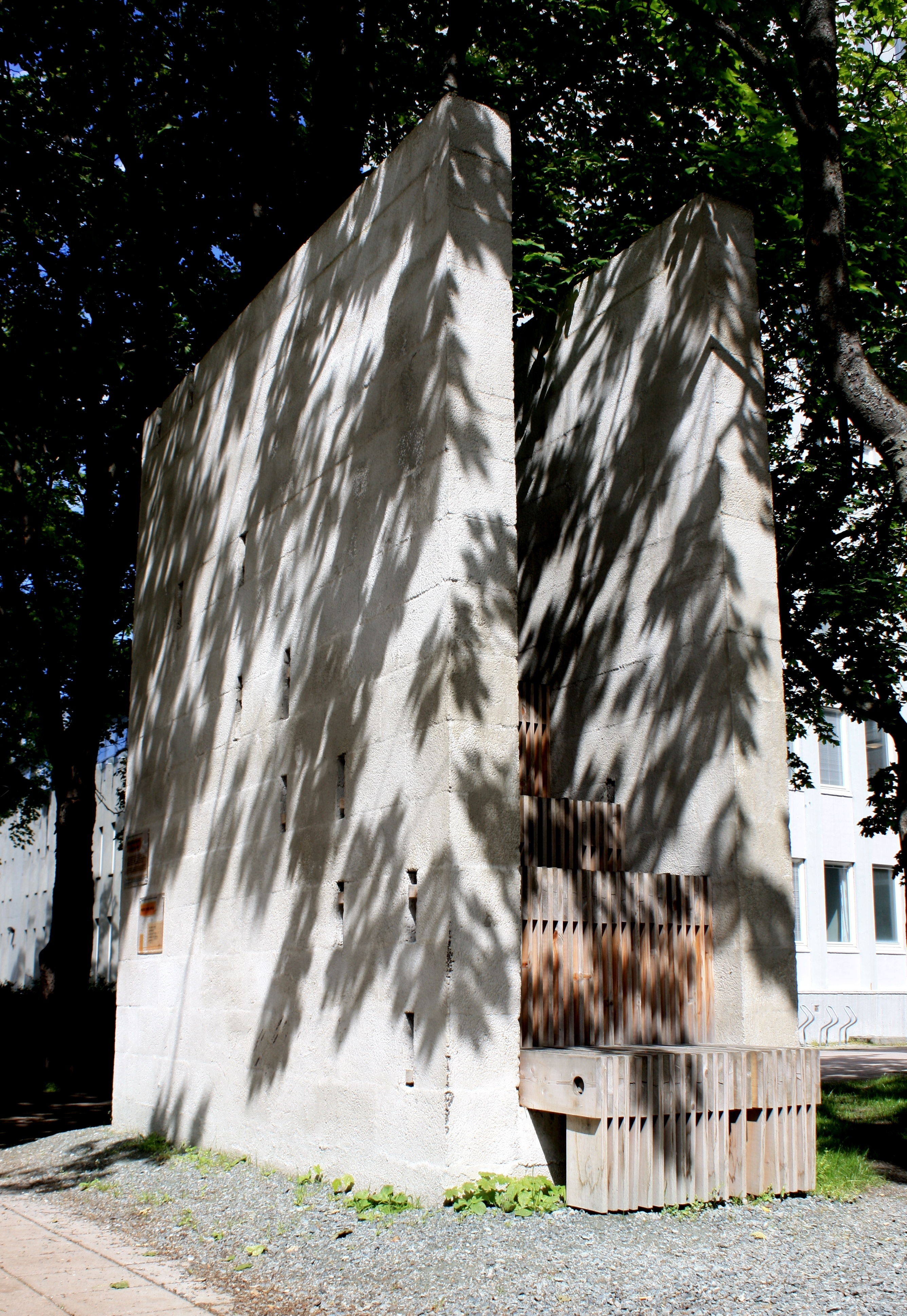 Picture of a pavilion at Gløshaugen (Trondheim, Norway), made by first year architecture students in 2007.